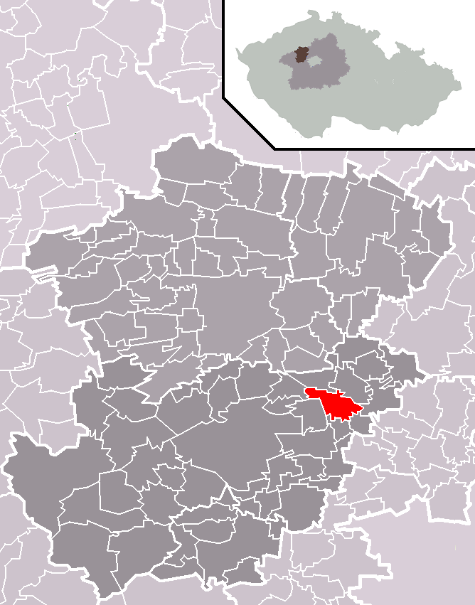 Location of Dřetovice municipality within Kladno District and administrative area of Kladno as a Municipality with Extended Competence.